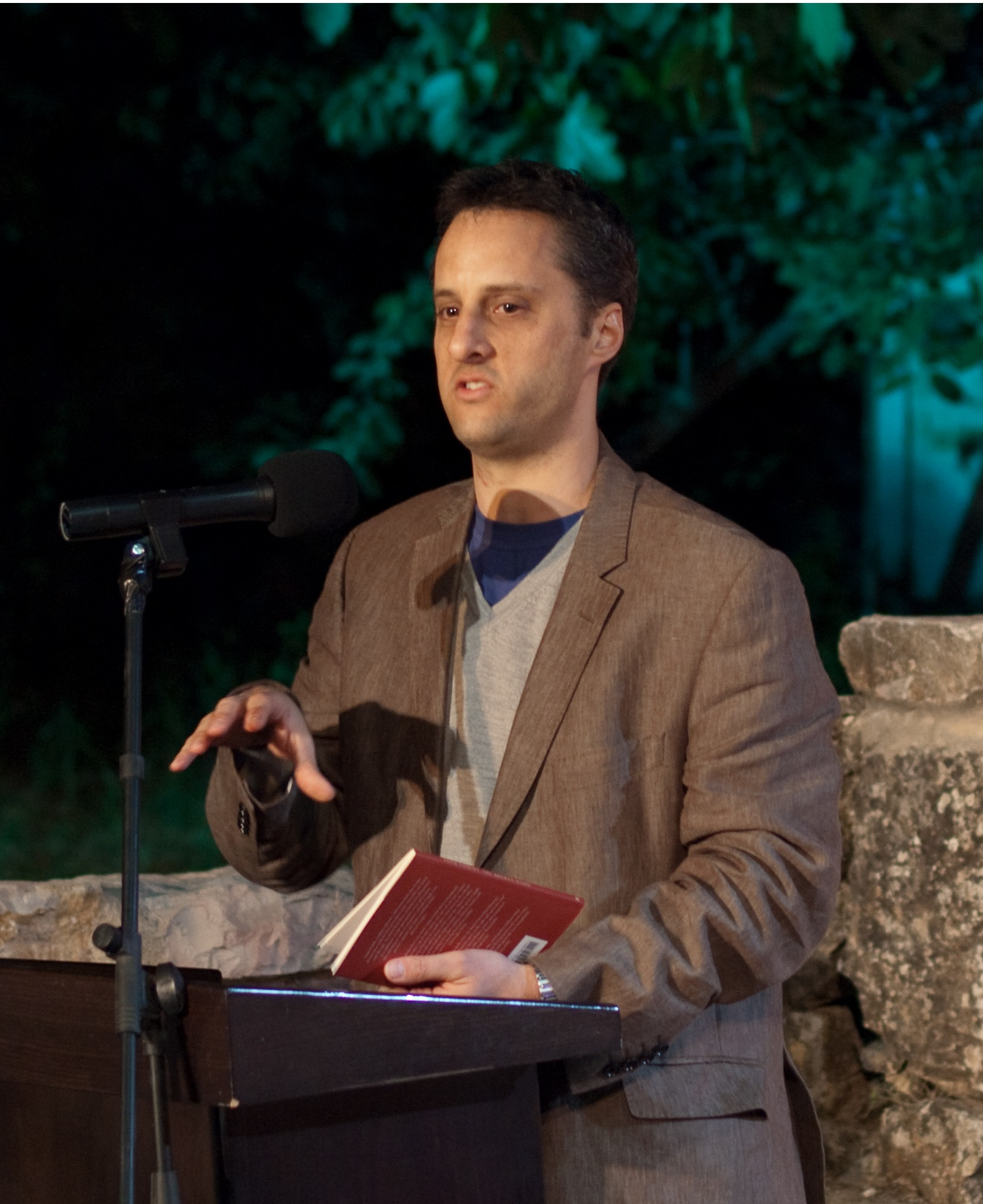 Author Adam Foulds